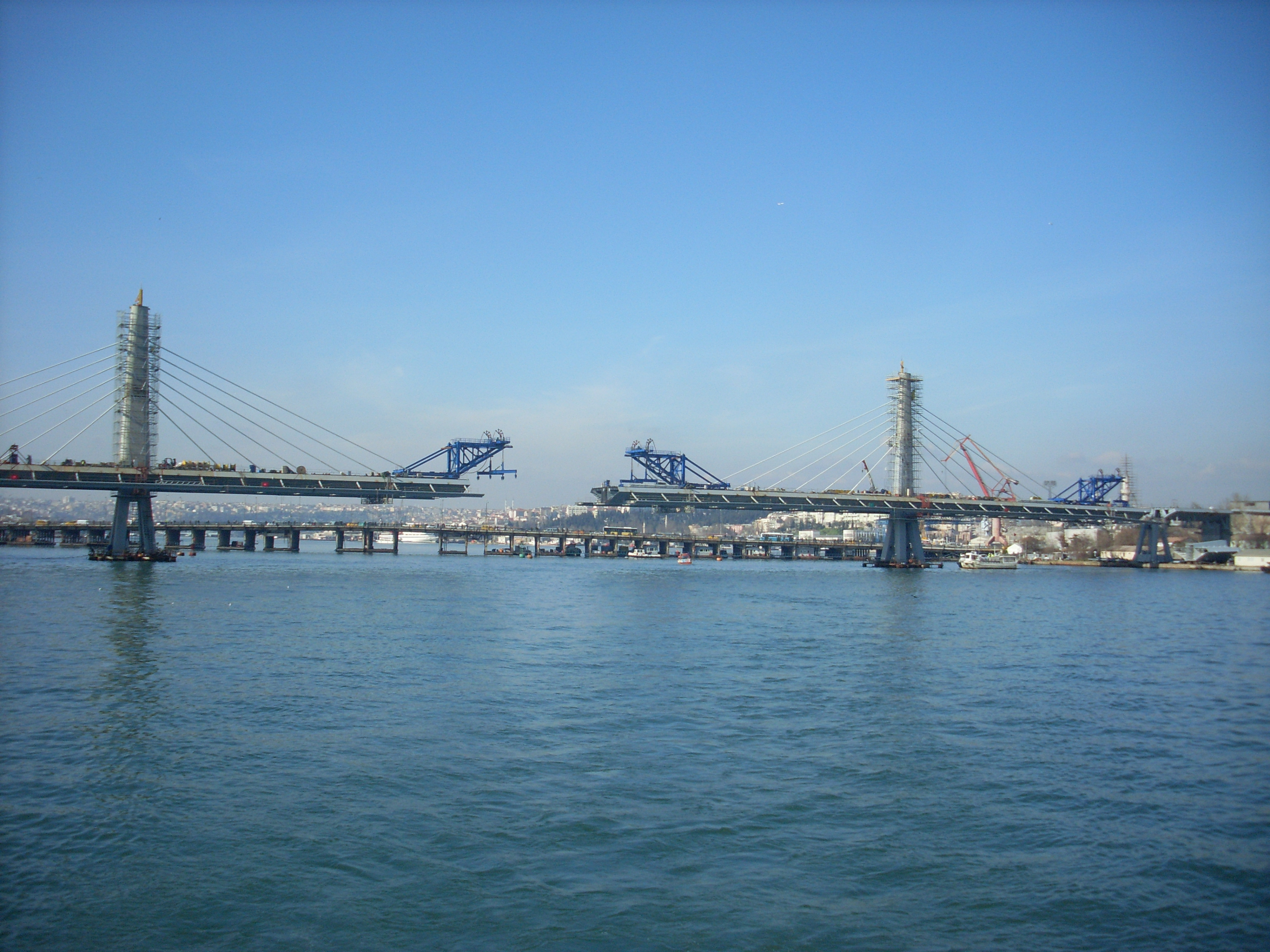 İstanbul - Golden Horn Metro Bridge r2 construction Feb 2013